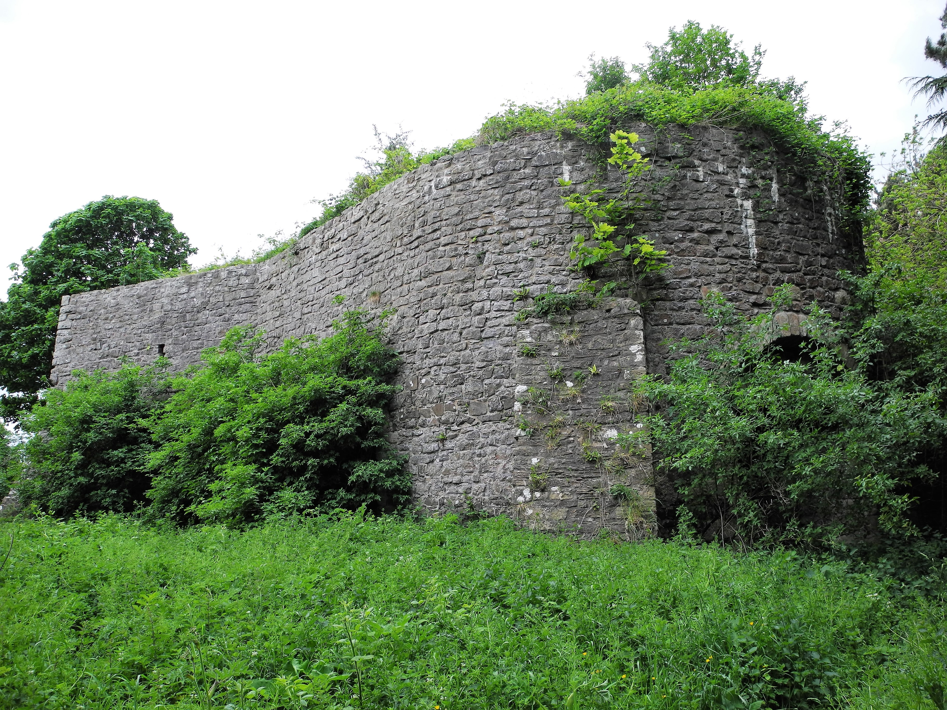 One of two lime kilns, 500 metres south east of the village of Christon Bank in Northumberland, England. A Grade II listed building.